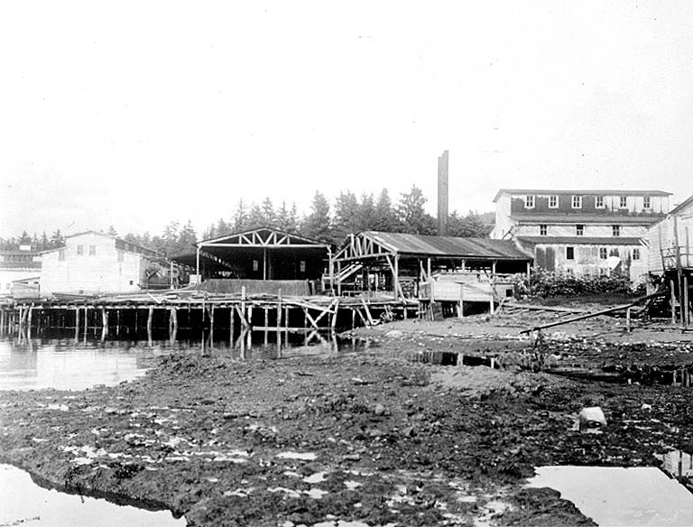 From John Cobb field notebook: Tyee whaling plant, general view, Jul 28, 1911 Subjects (LCTGM): Piers & wharves--Alaska--Tyee Subjects (LCSH): Tyee Company; Whaling--Alaska--Tyee; Docks--Alaska--Tyee